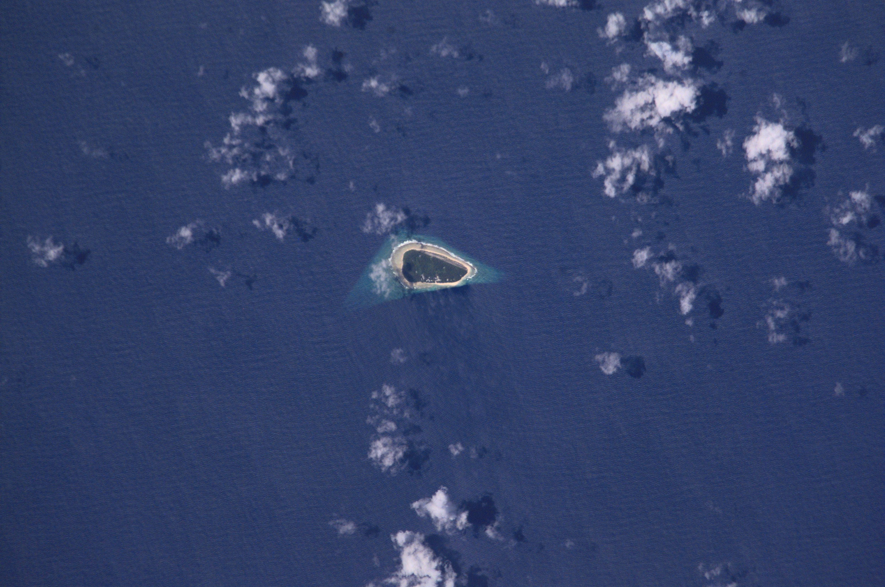 NASA Astronaut Image of Jabat, or Jabwot Island (Ralik Chain, Marshall Islands) in the Pacific Ocean